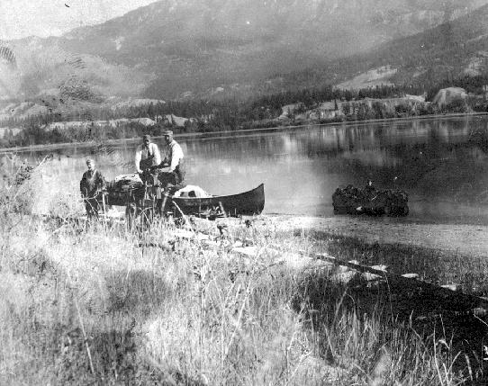 Horse-drawn tramway at Canal Flats connecting between Columbia Lake (headwaters of the Columbia River) and the Kootenay River.